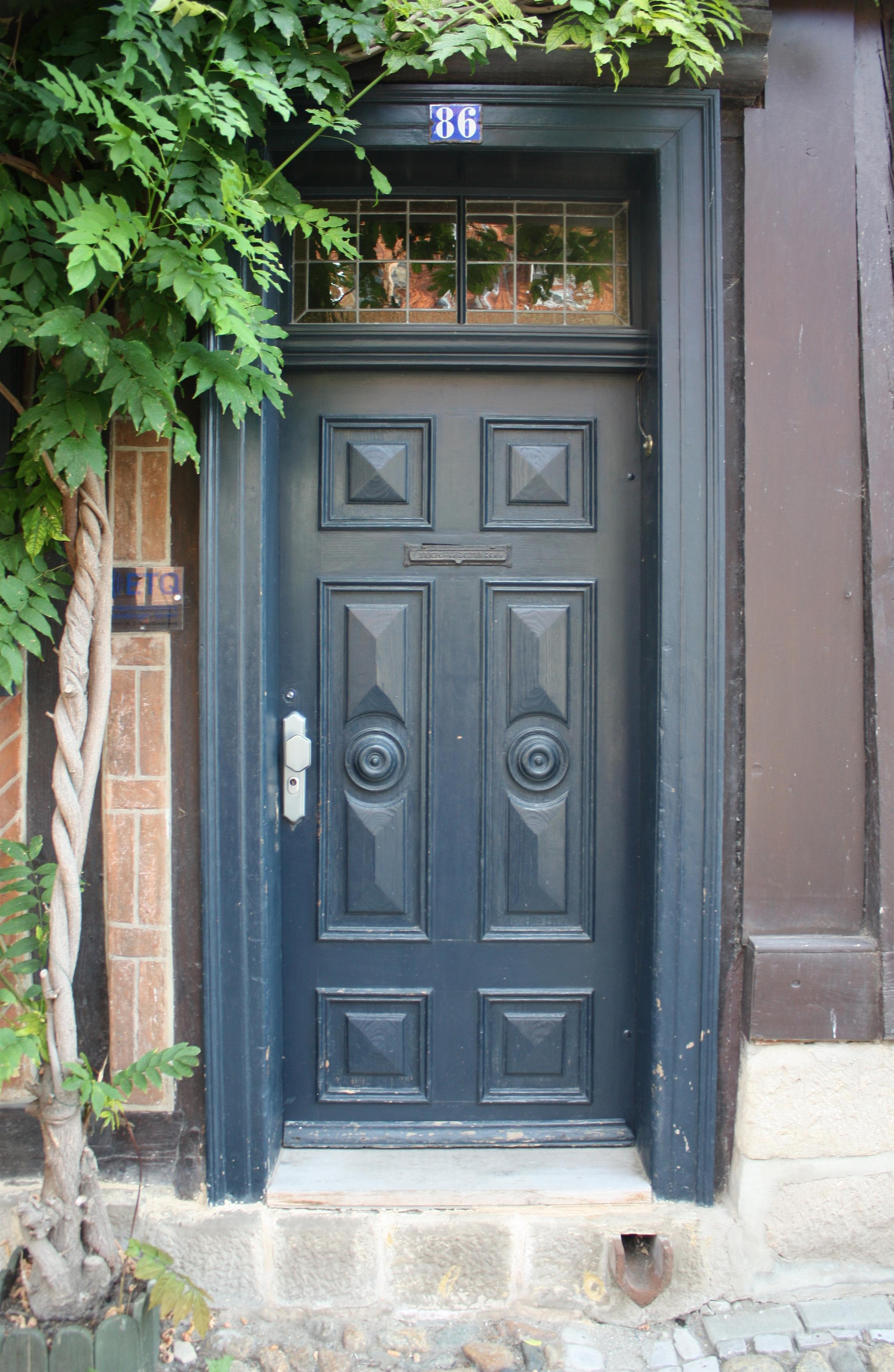 This is a photograph of an architectural monument.It is on the list of cultural monuments of Quedlinburg Augustinern 86 in Quedlinburg